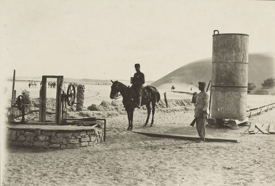 Watering station at El Arish, 1916